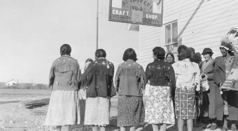 Title: Browning craft shop - women: Blackfeet women displaying various artifacts Creator: James Willard Schultz Date: 1859-1947 Description: Indian women standing in front of the Craft Shop in Browning displaying their goods. 5 women are facing away from camera. Written on verso: Beaded jackets made in ancient - Blackfoot-designs. Notes: None Object's Physical Description: image/jpeg Object type: image Collection Series: Series 4 - Photographs Collection Box: Box 8, Folder 3. Photographs #69-115 (Blackfeet Indians) Keywords: clothing and dress, handicraft, blackfeet indians, indians of north america, montana, siksika, native americans of north america Topic(s): Browning, Montana Object ID: 083 • I represent Montana State University Library and we are releasing this image into the Creative Commons.